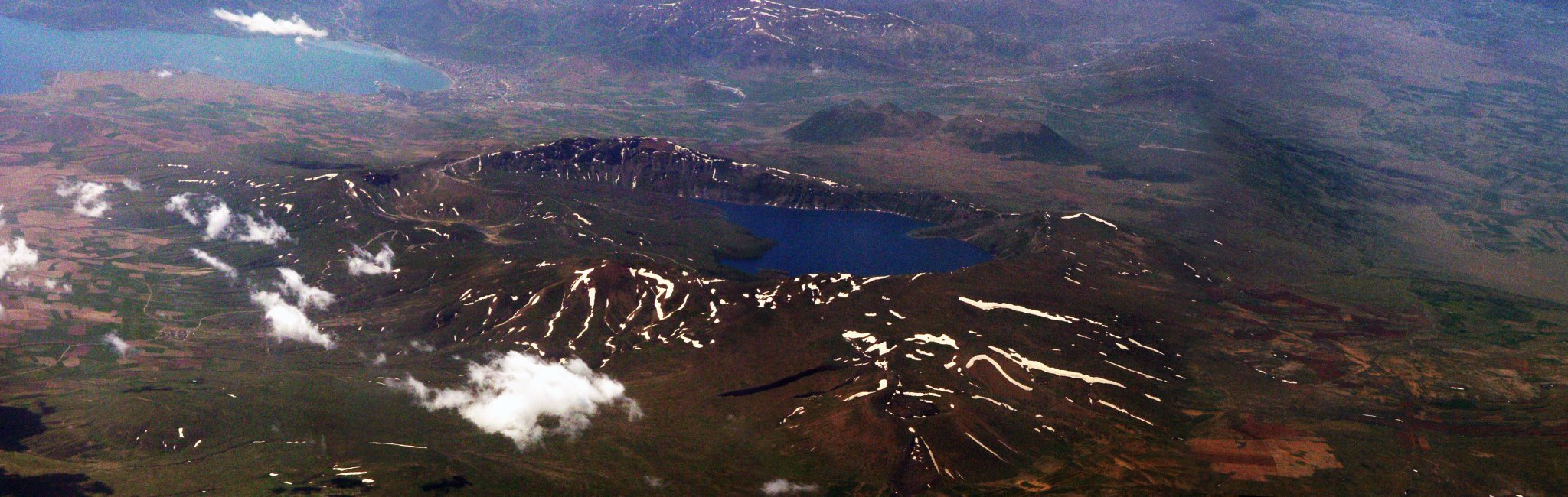 Oblique aerial photo of the Nemrut Caldera, Eastern Turkey, June, 2012